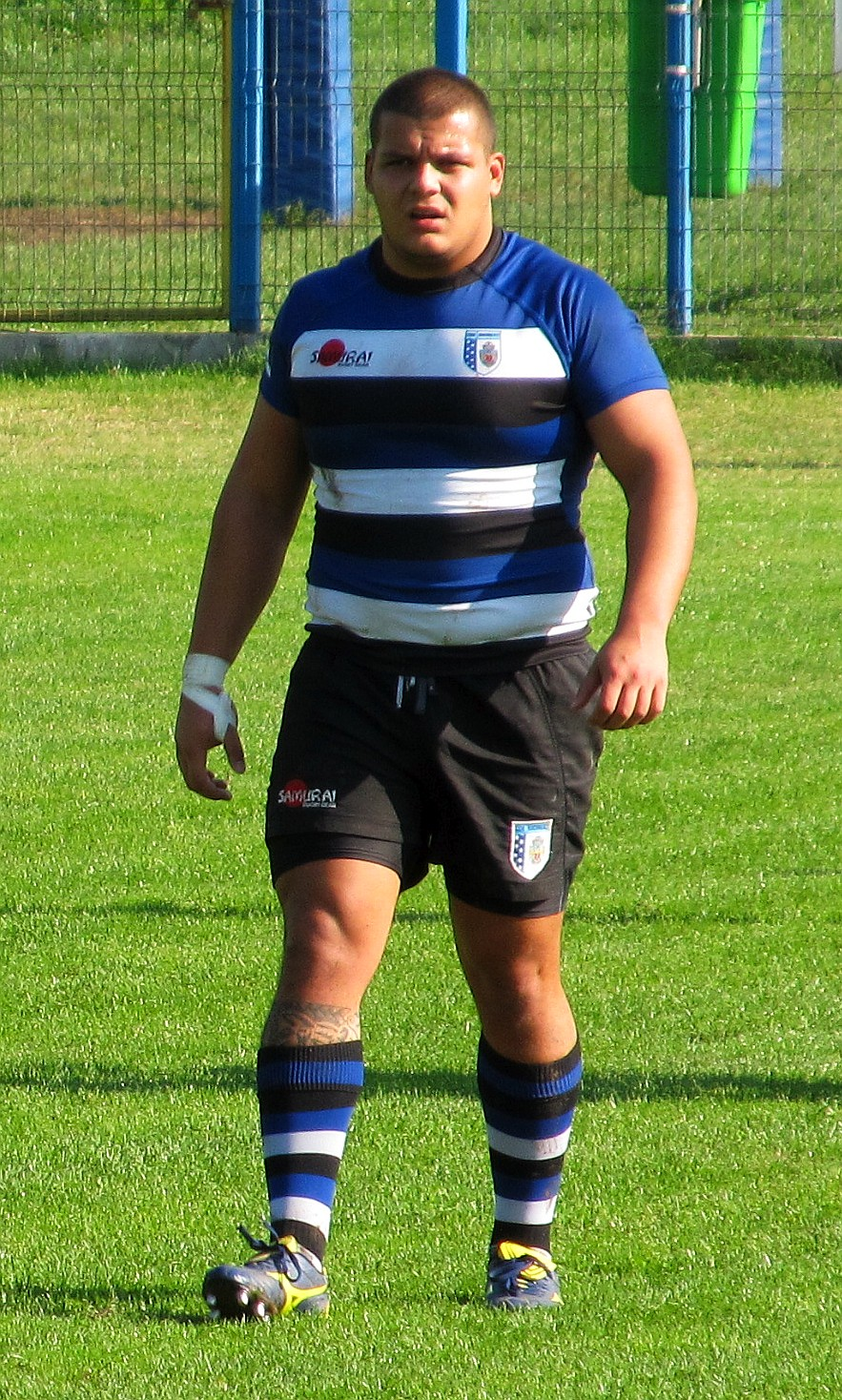 Romanian Rugby Union player Alex Gordaș during a match between his team, CSM București, and rivals CSM Baia Mare in 2015.